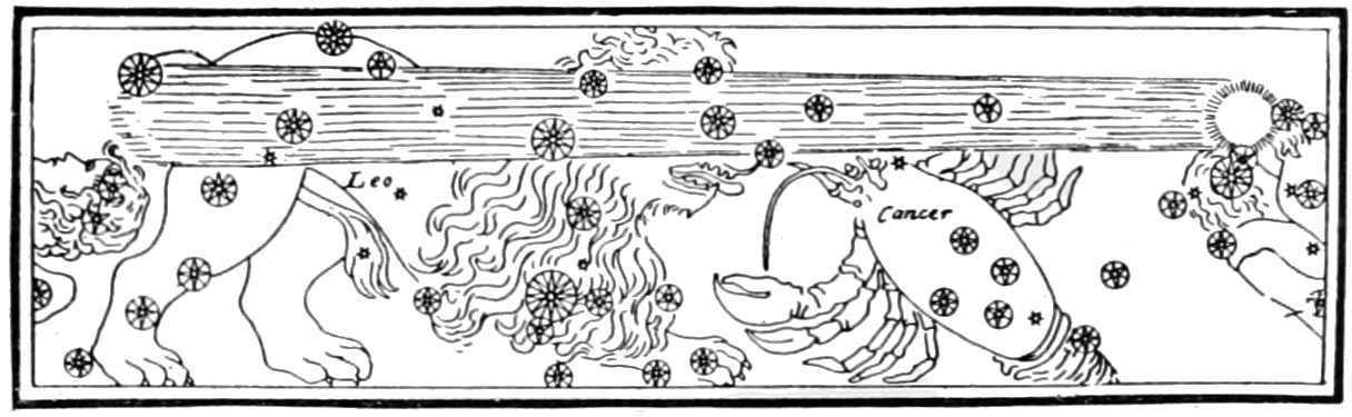 Halley comet in 1456